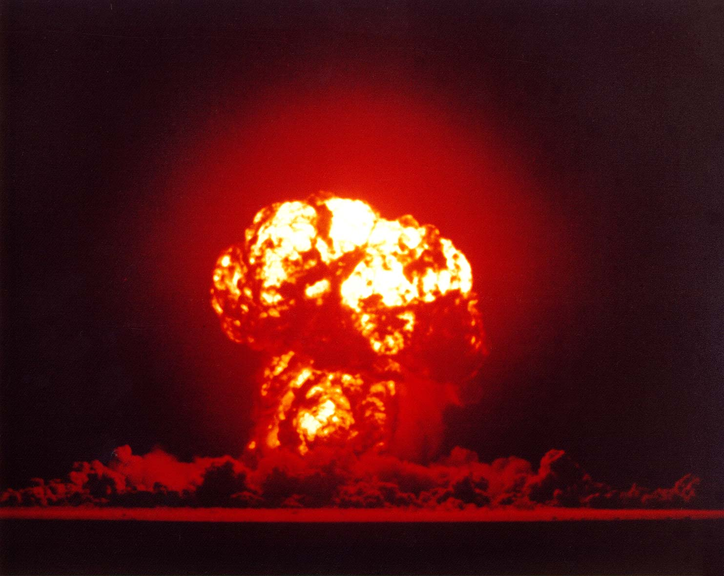 Operation Teapot, APPLE-2 Event - Nevada Test Site, NV - The APPLE-2 Event, a 29-kiloton tower test, was detonated on 5 May 1955 at the Nevada Test Site.